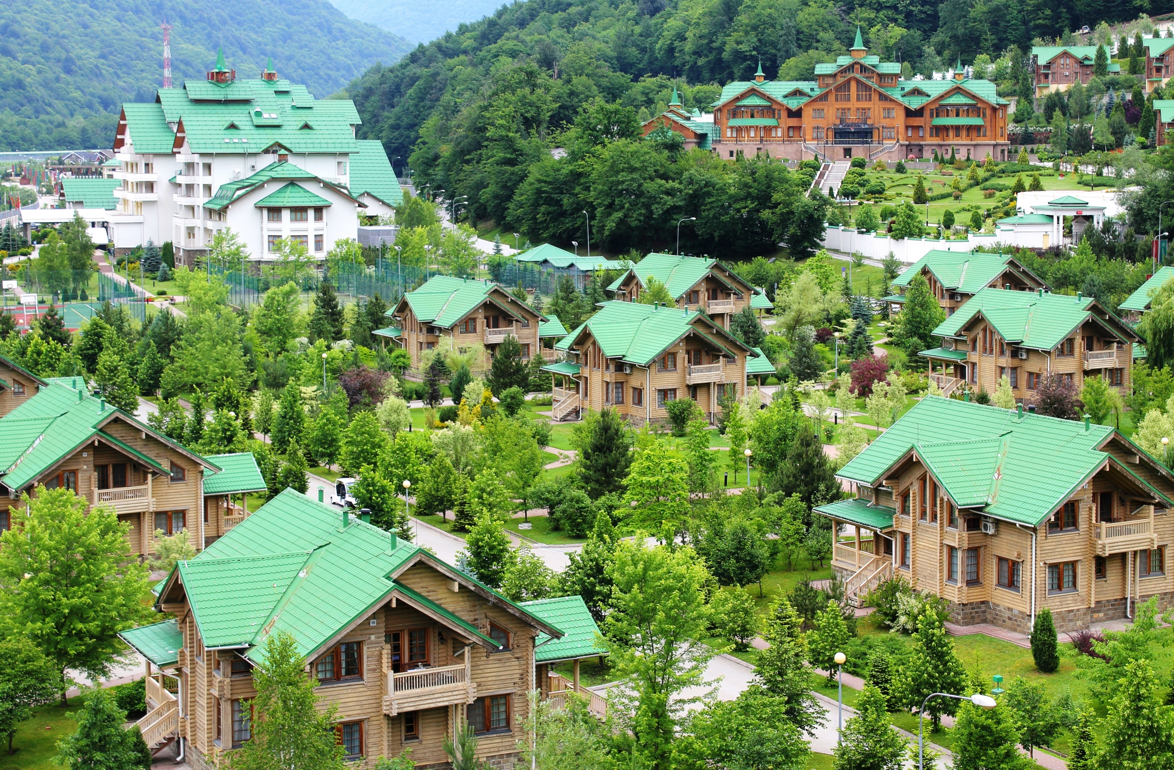 Gazprom Mountain Resort in Krasnaya Polyana